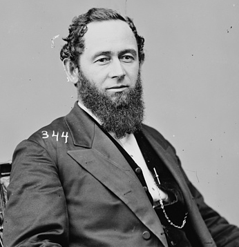 Kentucky Congressman William N. Sweeney